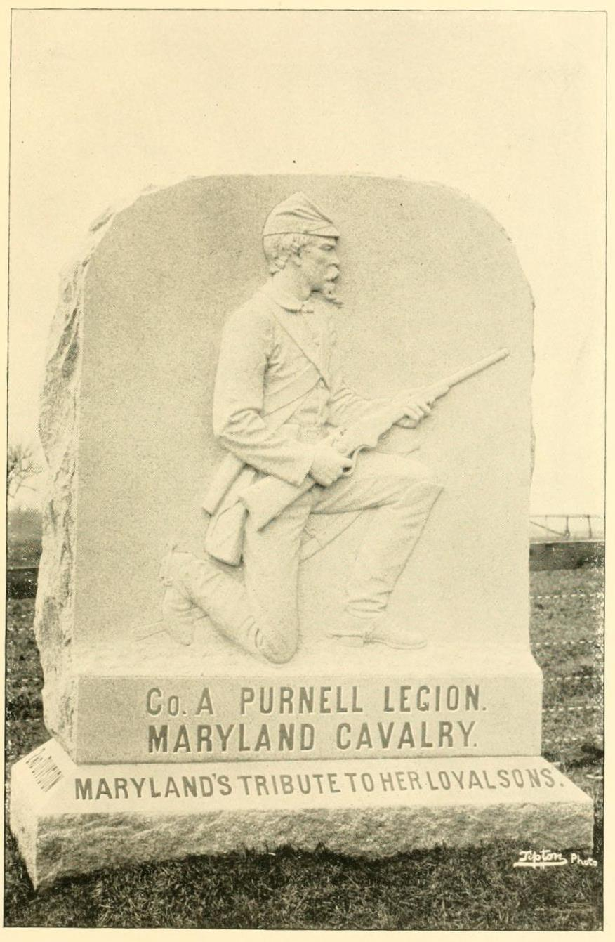 Company A, Purnell Legion, Maryland Cavalry Monument, Gettysburg Battlefield. Report of the State of Maryland Gettysburg Monument Commission (Baltimore: Wiliam K. Boyle & Son, 1891), opp. p. 98.[1]